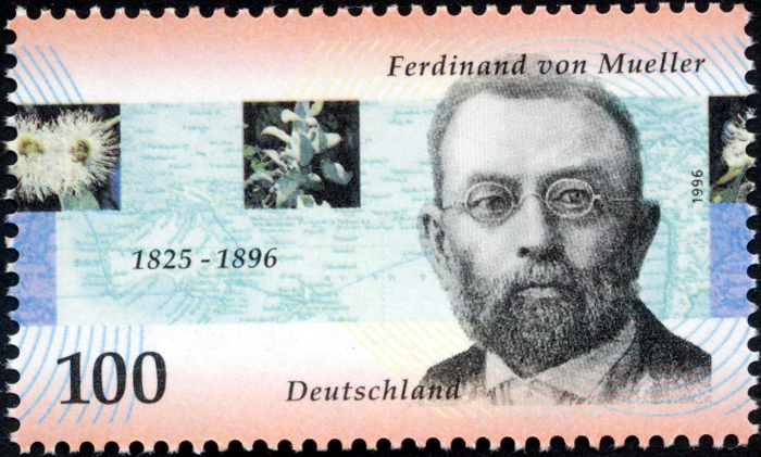 Stamp from Deutsche Post AG from 1996, 100th anniversary of Ferdinand von Mueller